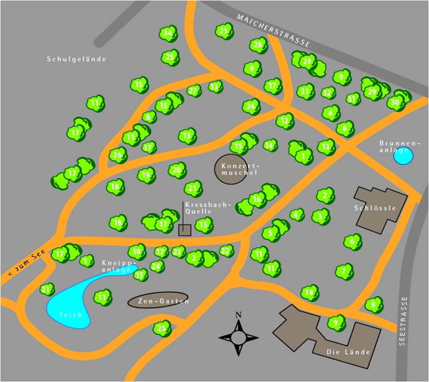 Germany - Baden-Württemberg - Bodenseekreis - Kressbronn am Bodensee: 'Schlösslepark', arboretum (without details)